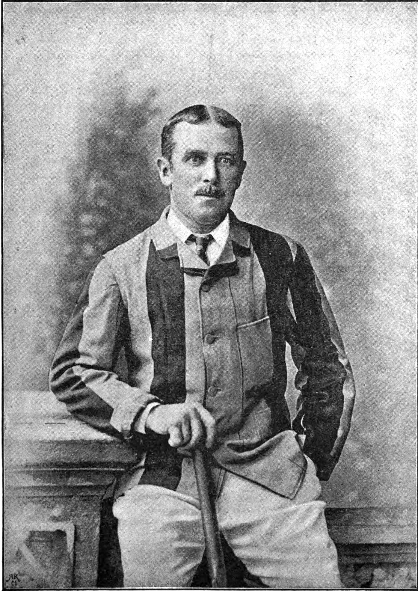 A.N. Hornby